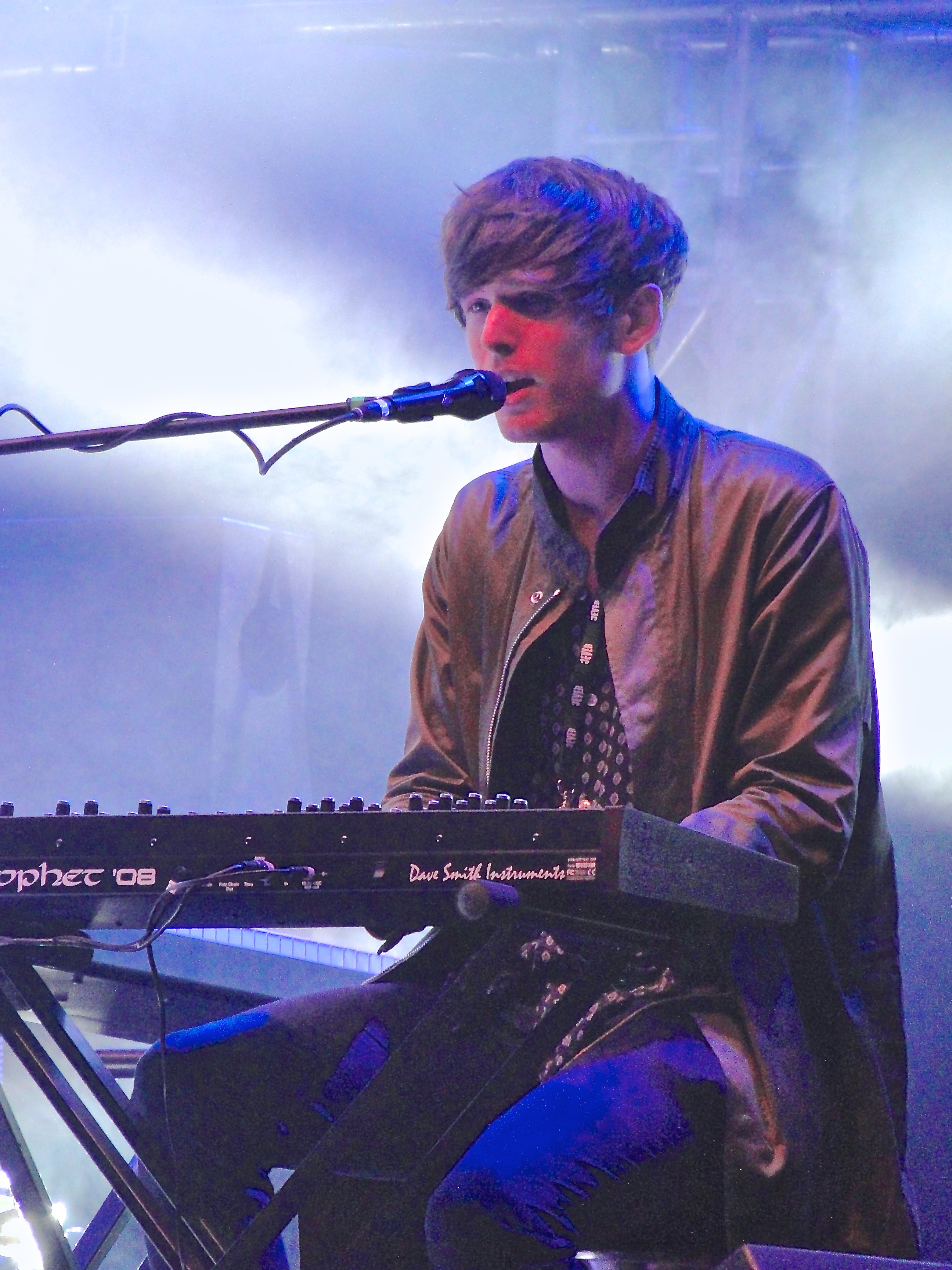 James Blake performing at Dockville Festival, Germany, Hamburg, 2012